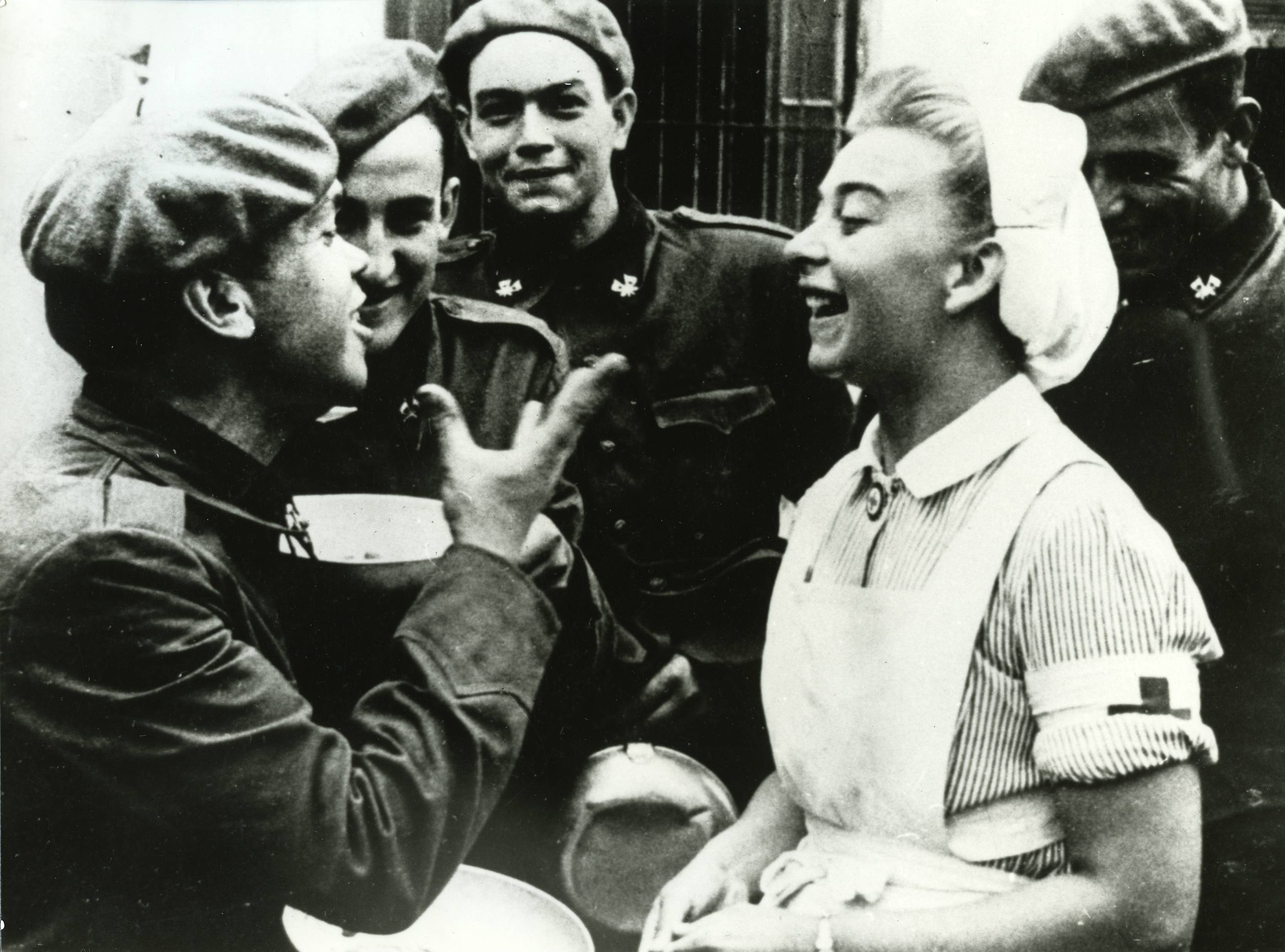 Spanish soldiers from the Blue Division fraternizing with a German nurse at Grafenwöhr.